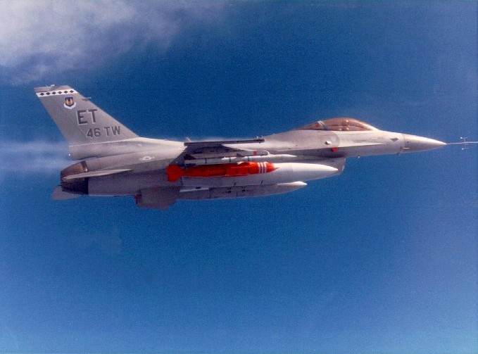 BLU-109 above F-16.